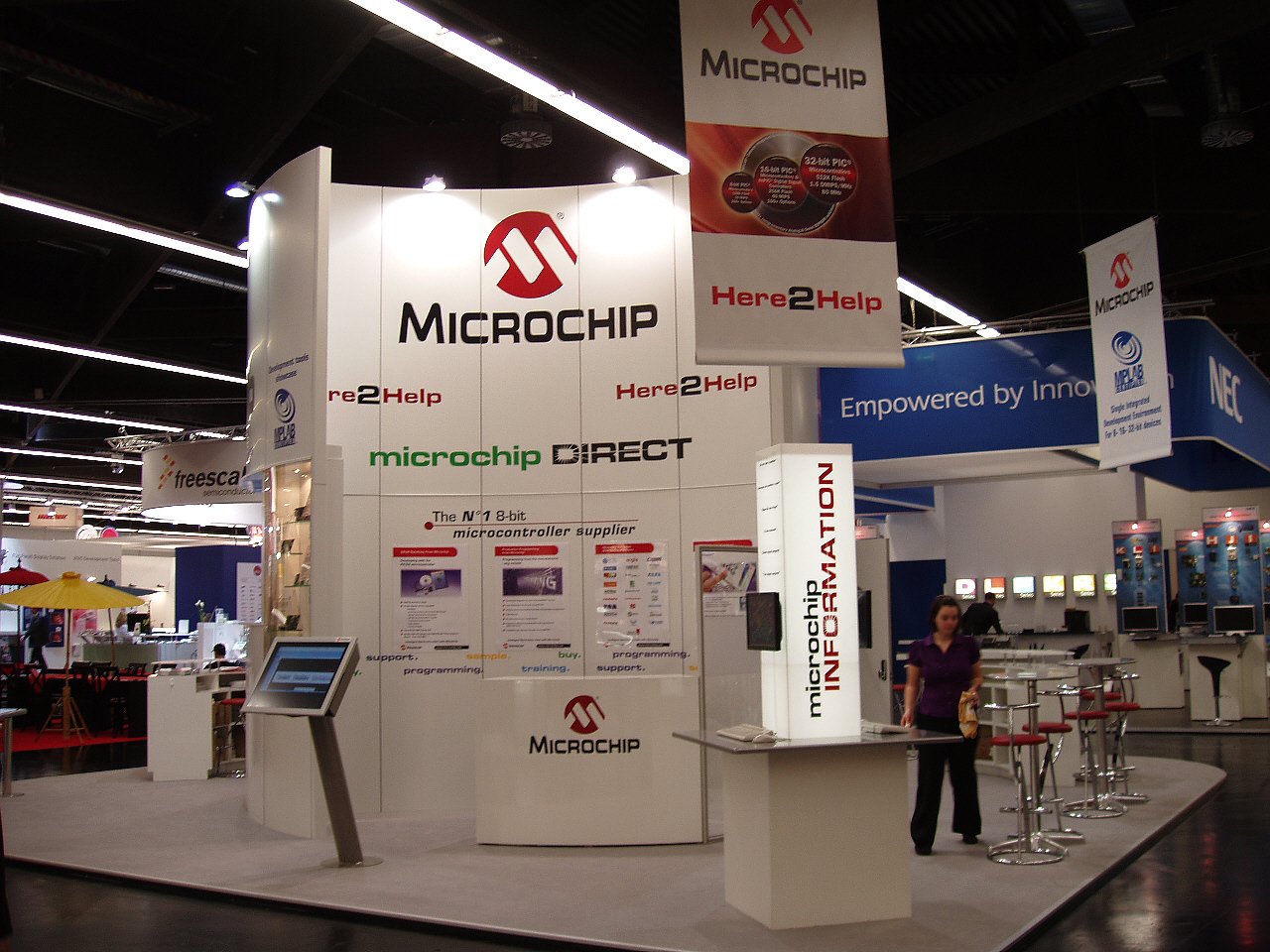 Microchip Technology on trade fair Embedded World a few minutes before opening the fair, Nuremberg, Germany 2008.